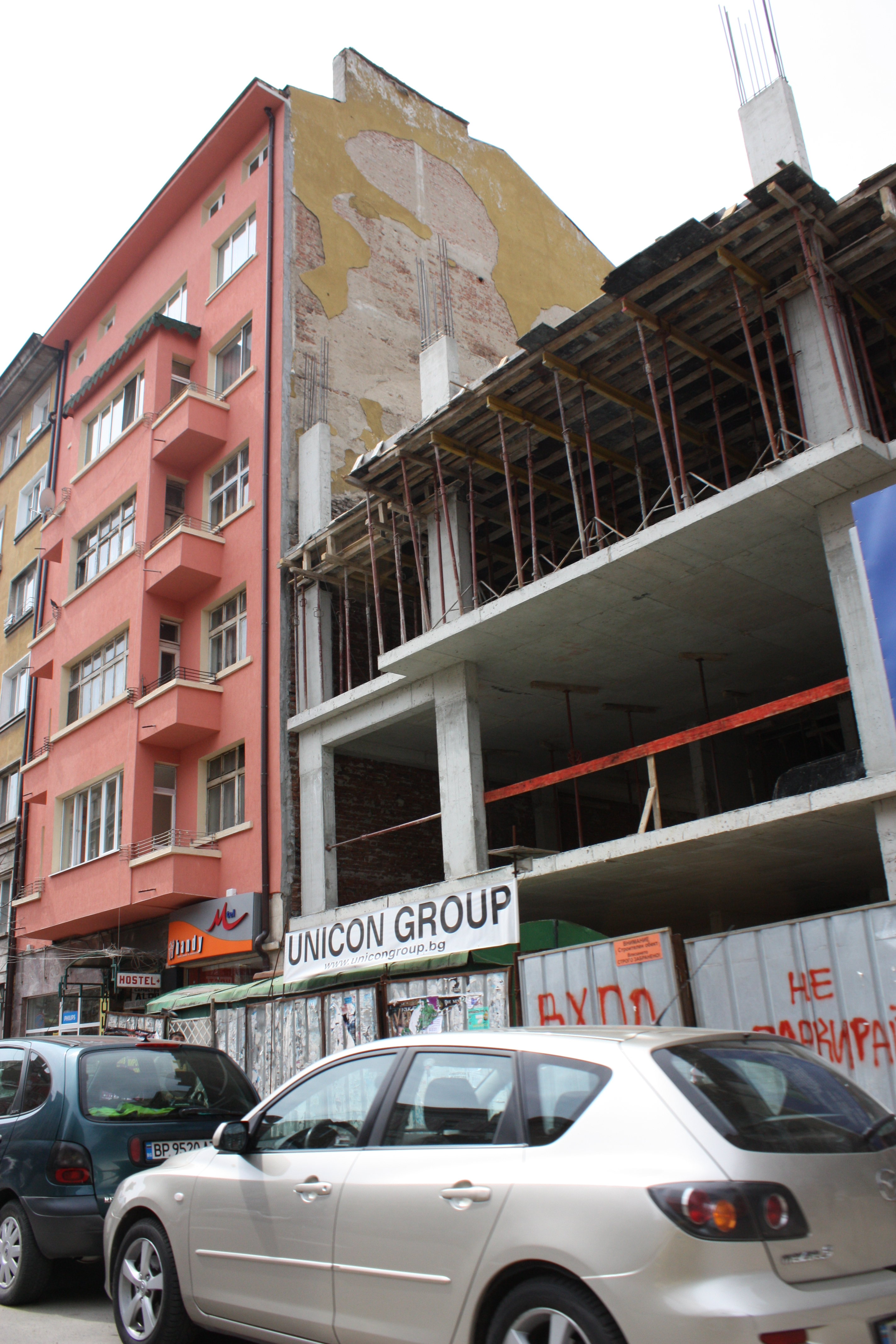 Streets in Sofia, Bulgaria, Straßen in Sofia, 2009